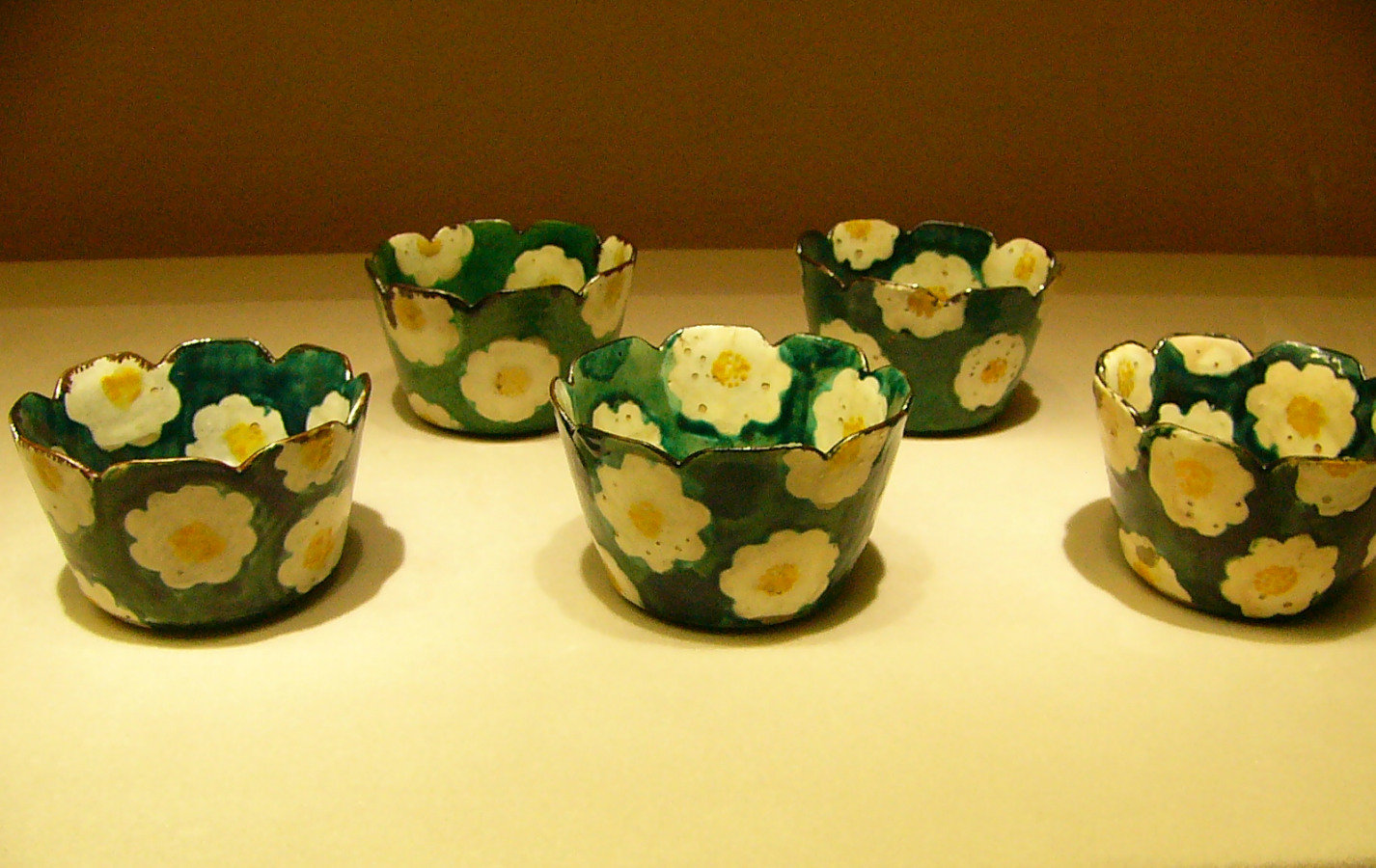 Five small bowls, by OGATA KENZAN(1663, Kyoto-1742, Edo), glazed pottery, 18th century, each Height about 8.0cm, The Museum of Oriental Ceramics Osaka, OSAKA, Japan